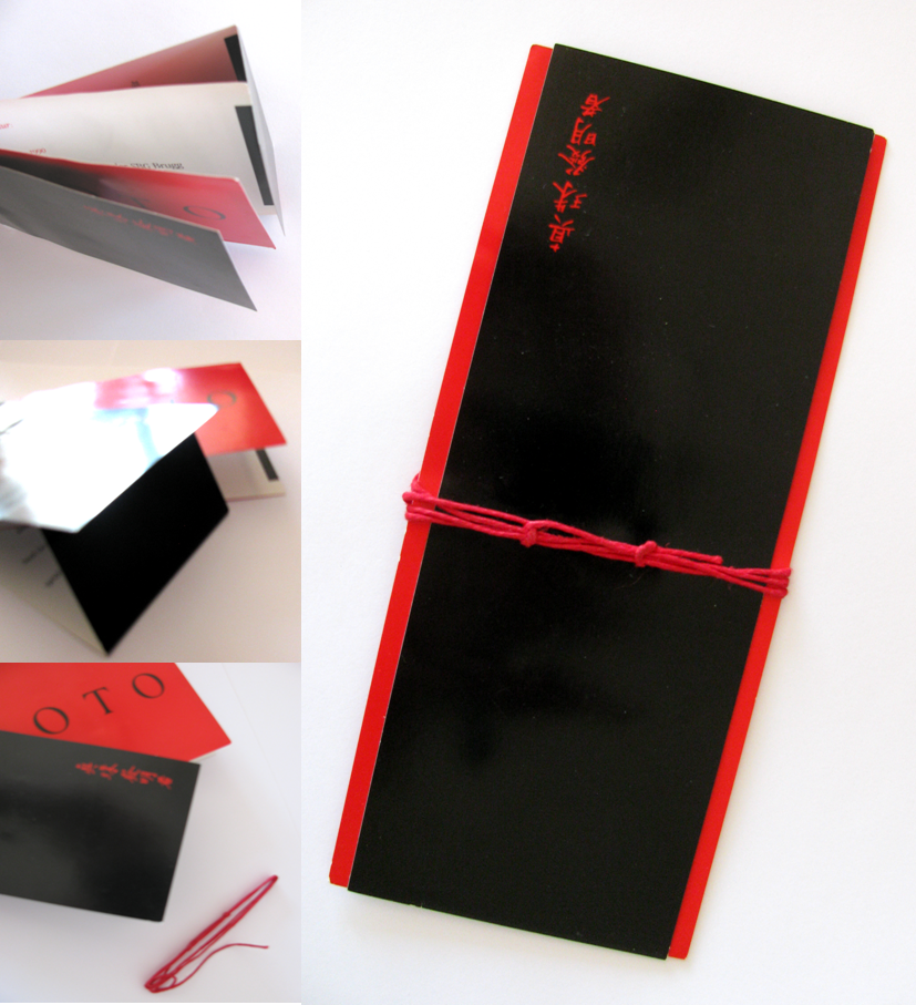 Ephemera / Kleinschrifftum